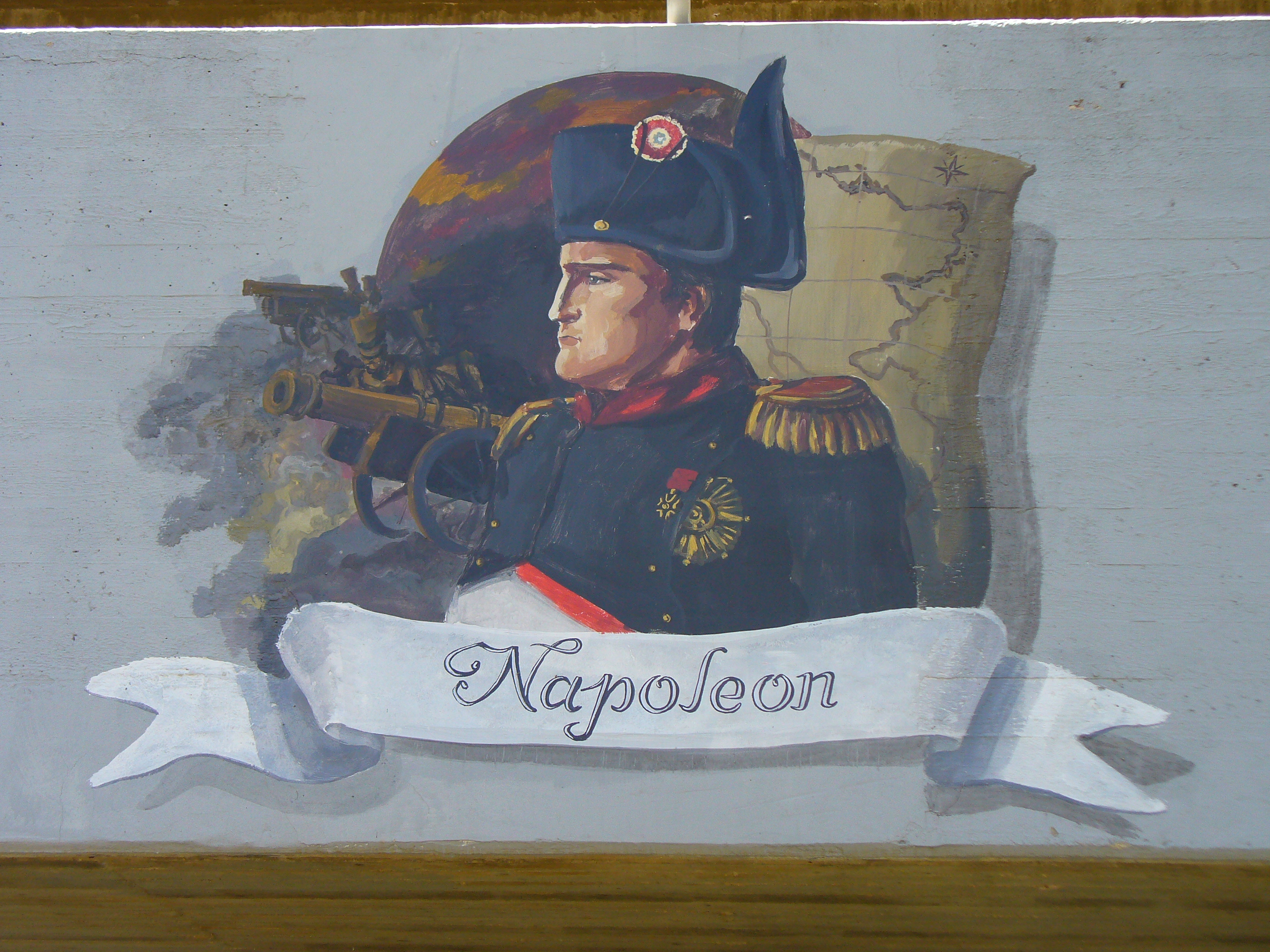 Wall painting of Napoleon I of France, at the wall of Akko's Auditorium. Don't know the painters name though... More information (in Hebrew) about the paintings can be found here